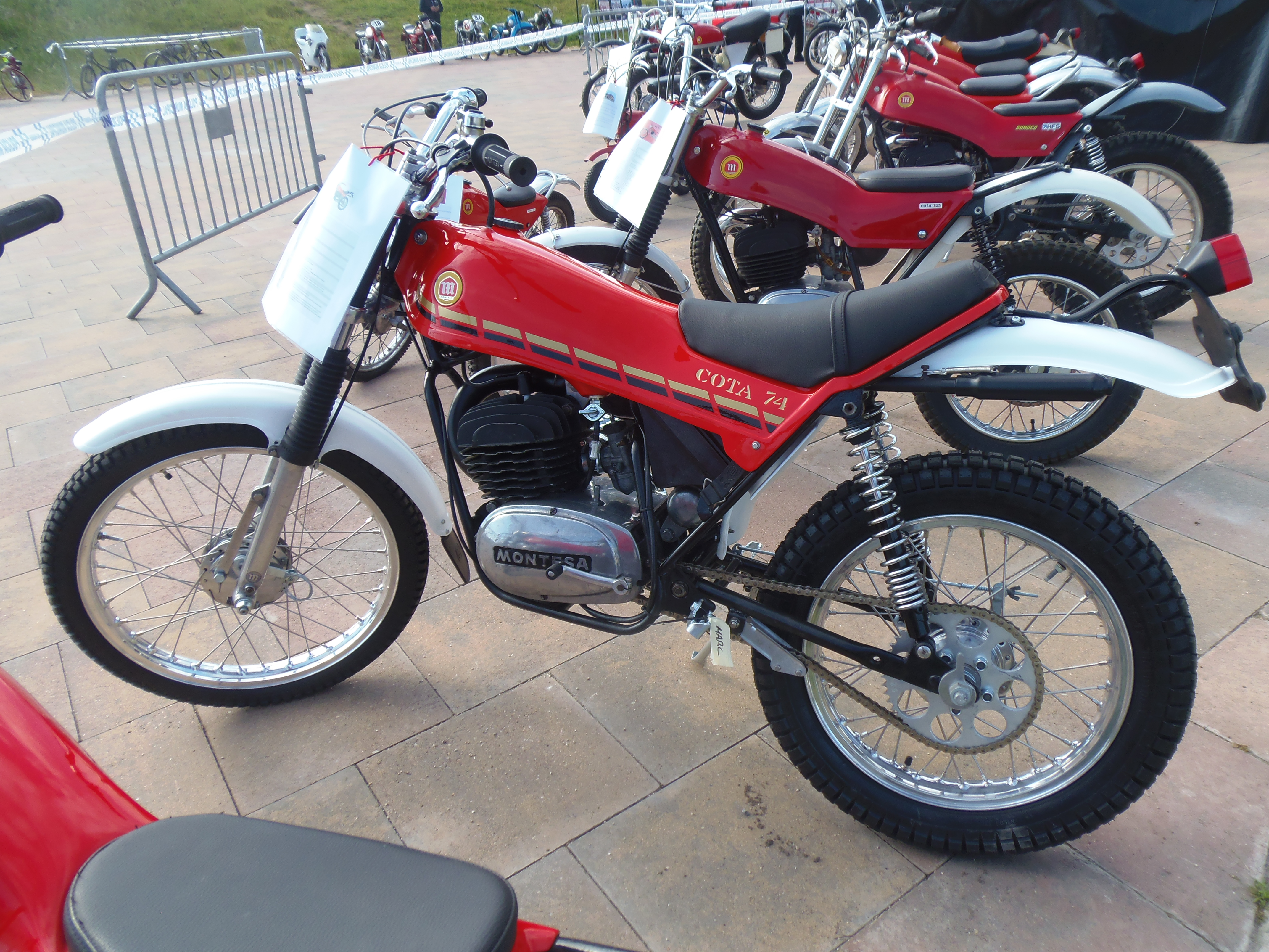 Montesa Cota 74, 1978